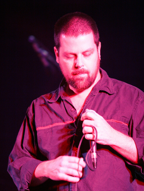 Israeli rapper Sagol 59 performing live in 2012.